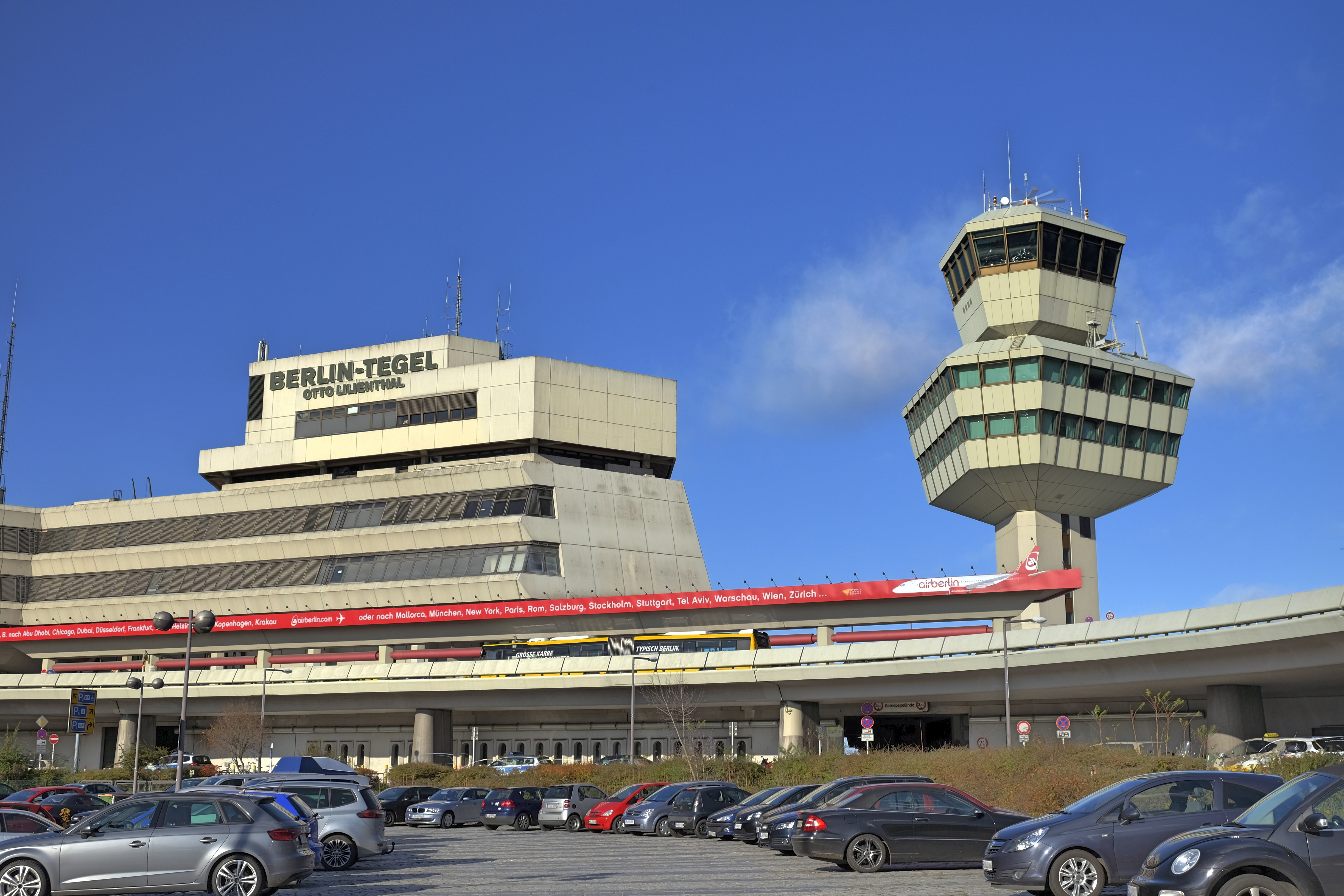 Berlin Tegel Airport: Otto Lilienthal.